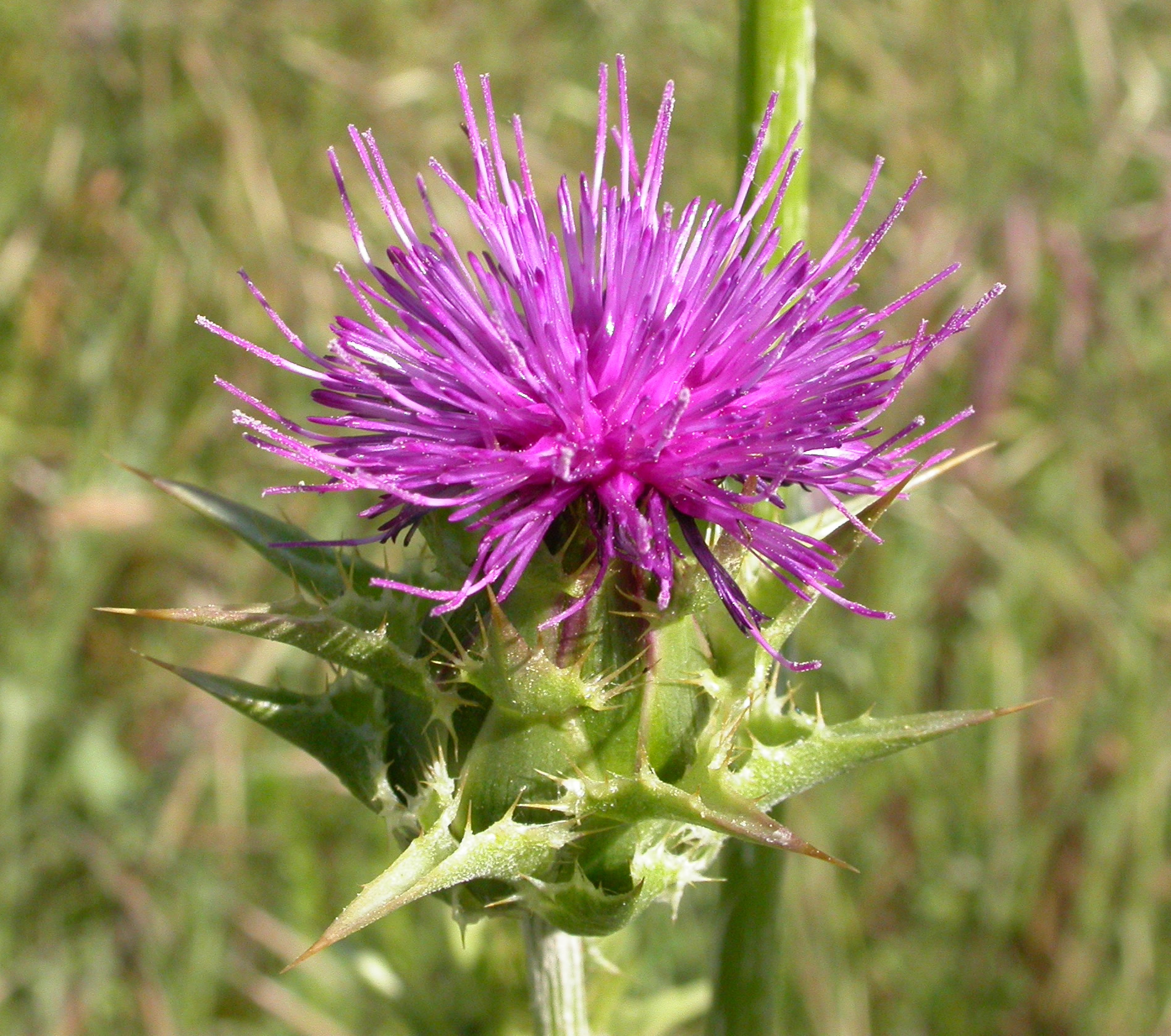 Silybum marianum — Species is an introduced weed. In the Voorhis Ecological Reserve at California State Polytechnic University, Pomona, California.